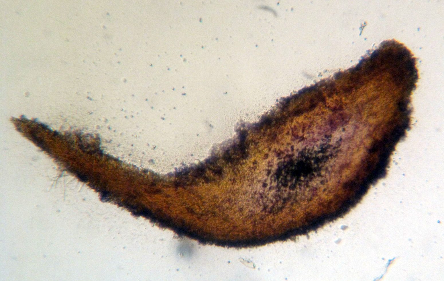 A "tooth" of the hydnoid fungus Auriscalpium vulgare. Microscope image at 100x, stained with Melzer's reagent. Image cropped and levels adjusted by uploader.